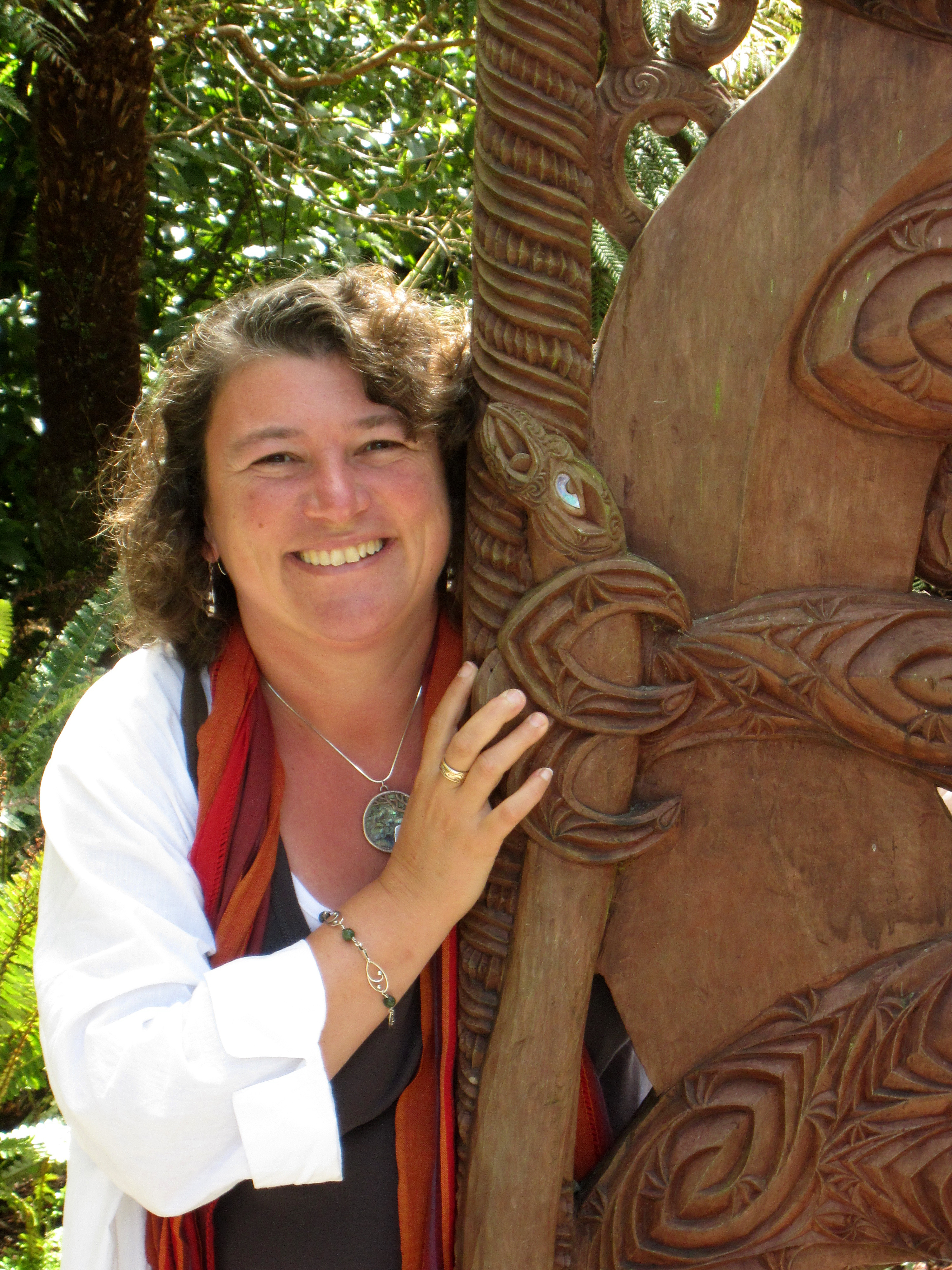 Photo of Leslie Van Gelder at Pukeiriti, New Zealand